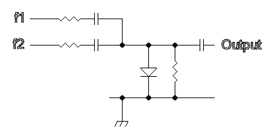 bad mixer for the TVI article